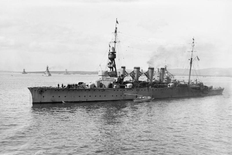 British light cruiser HMS BIRMINGHAM.